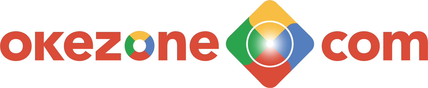 Okezone logo as of November 2017